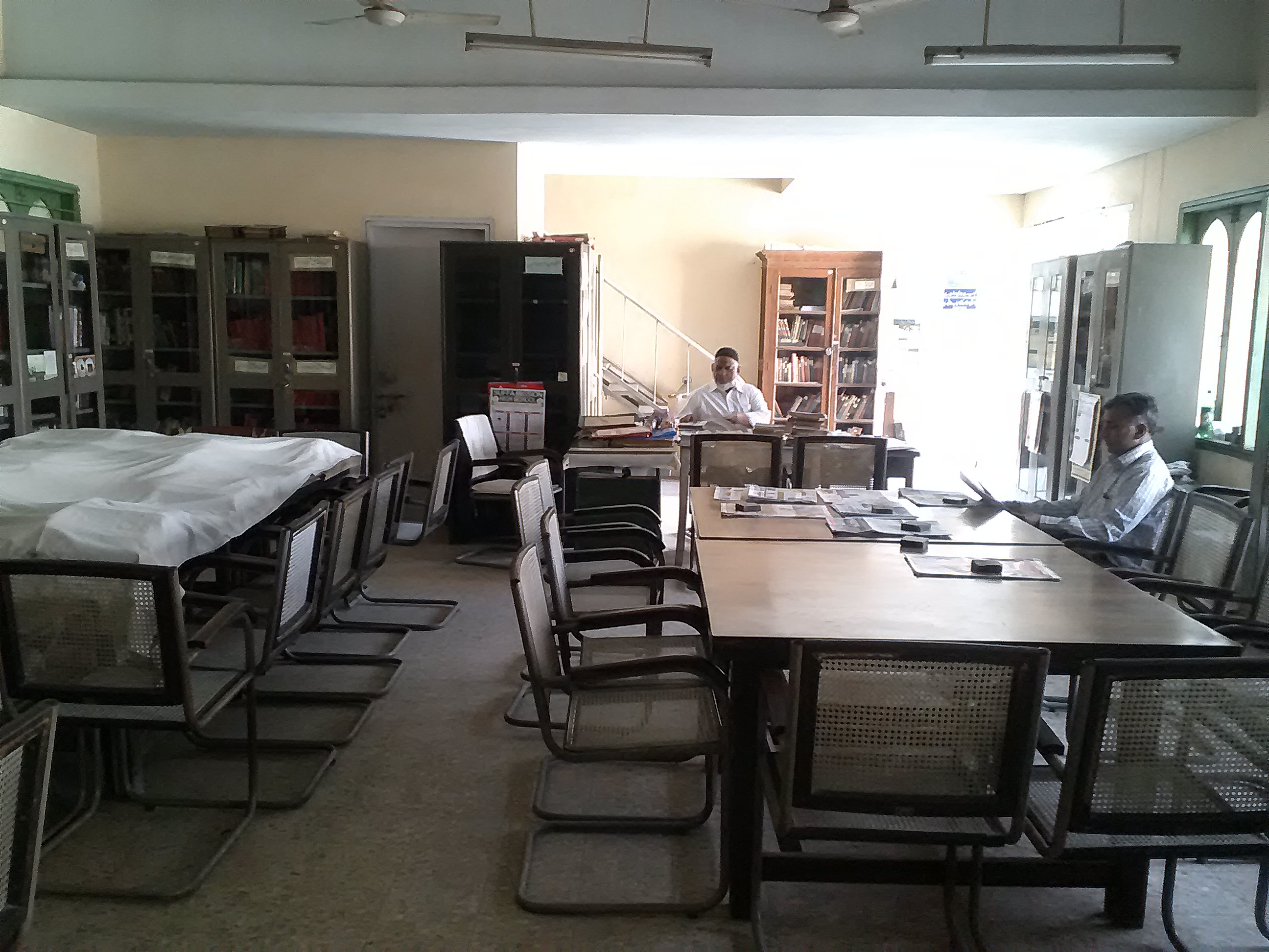 Inside the Library